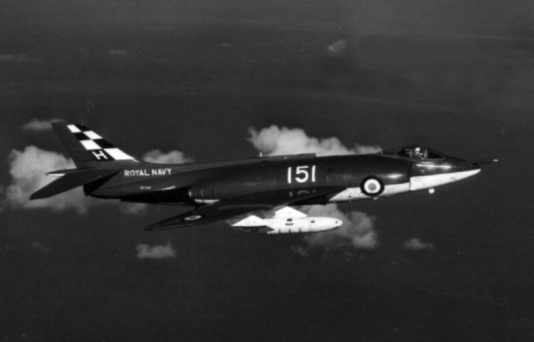 A Royal Navy Supermarine Scimitar F.1 (XD244) from 803 Naval Air Squadron assigned to the aircraft carrier HMS Hermes (R12). XD244 became the last flying Scimitar which made its last flight from RAF Hurn, Dorset (UK), to London Southend Airport, Essex, on 13 February 1971. Two days later it was transported by road to the Foulness Island range and used as a target. Remains were still visble in 1989.